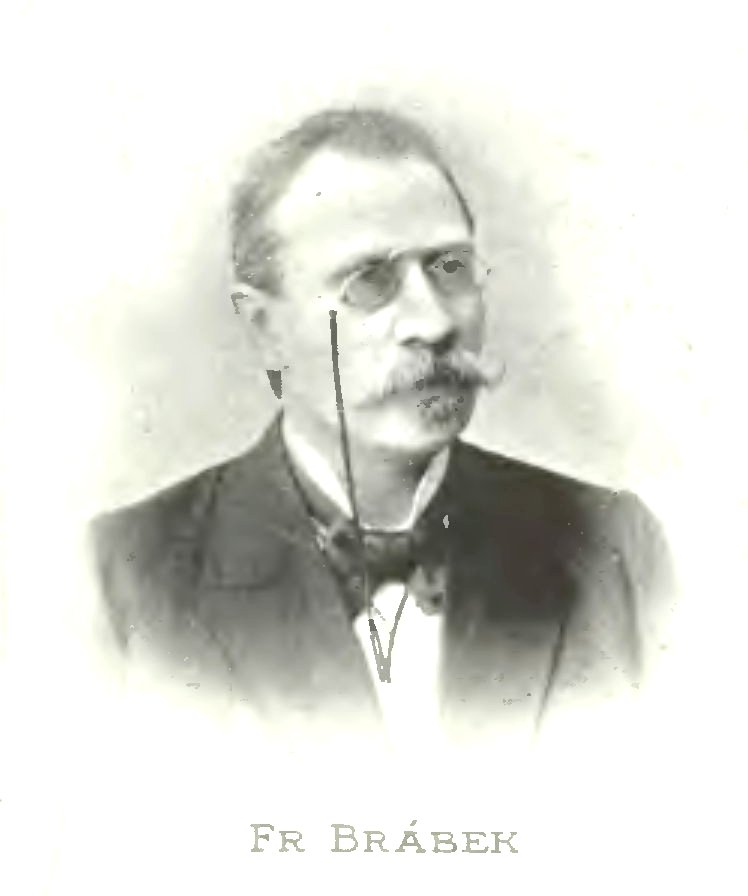 Portrait of František Brábek (1848-1926), Czech teacher and translator of Hungarian